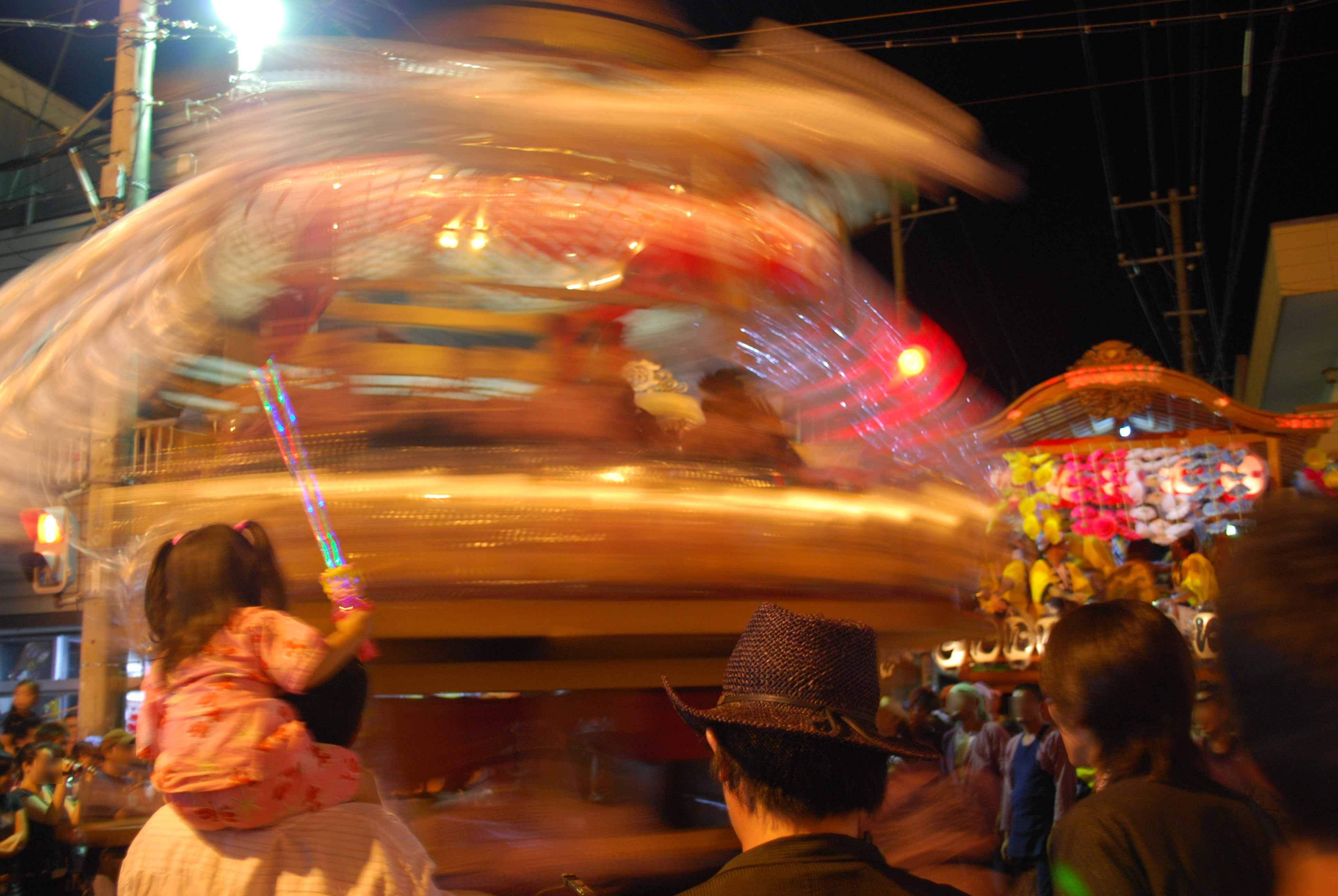 Floats turn the corner at the Edosaki Gion Matsuri (Edosaki Gion Festival) in Inashiki City, Ibaraki Prefecture, Japan